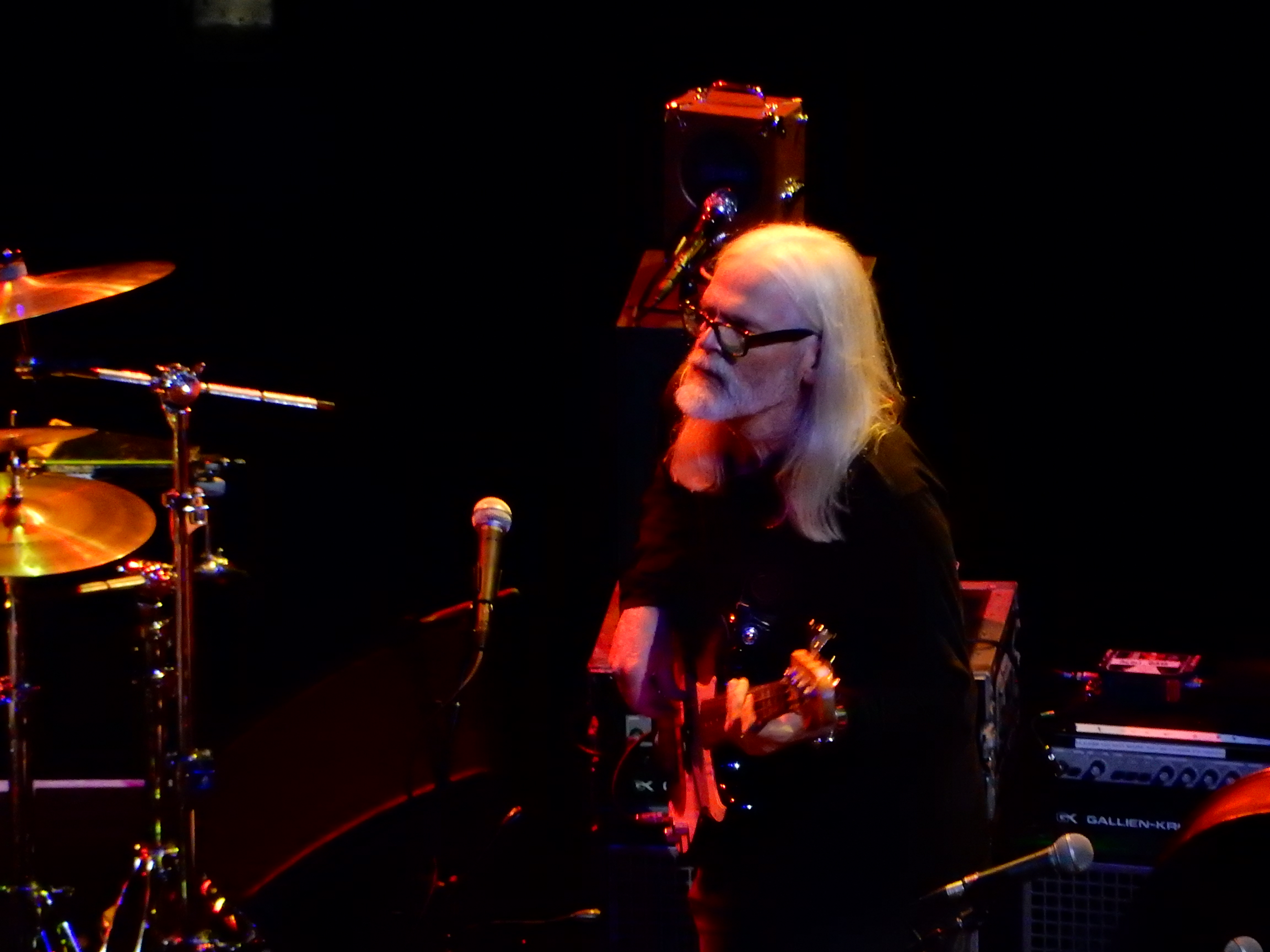 Musician David Hayes playing bass behind Van Morrison on 1/31/2018